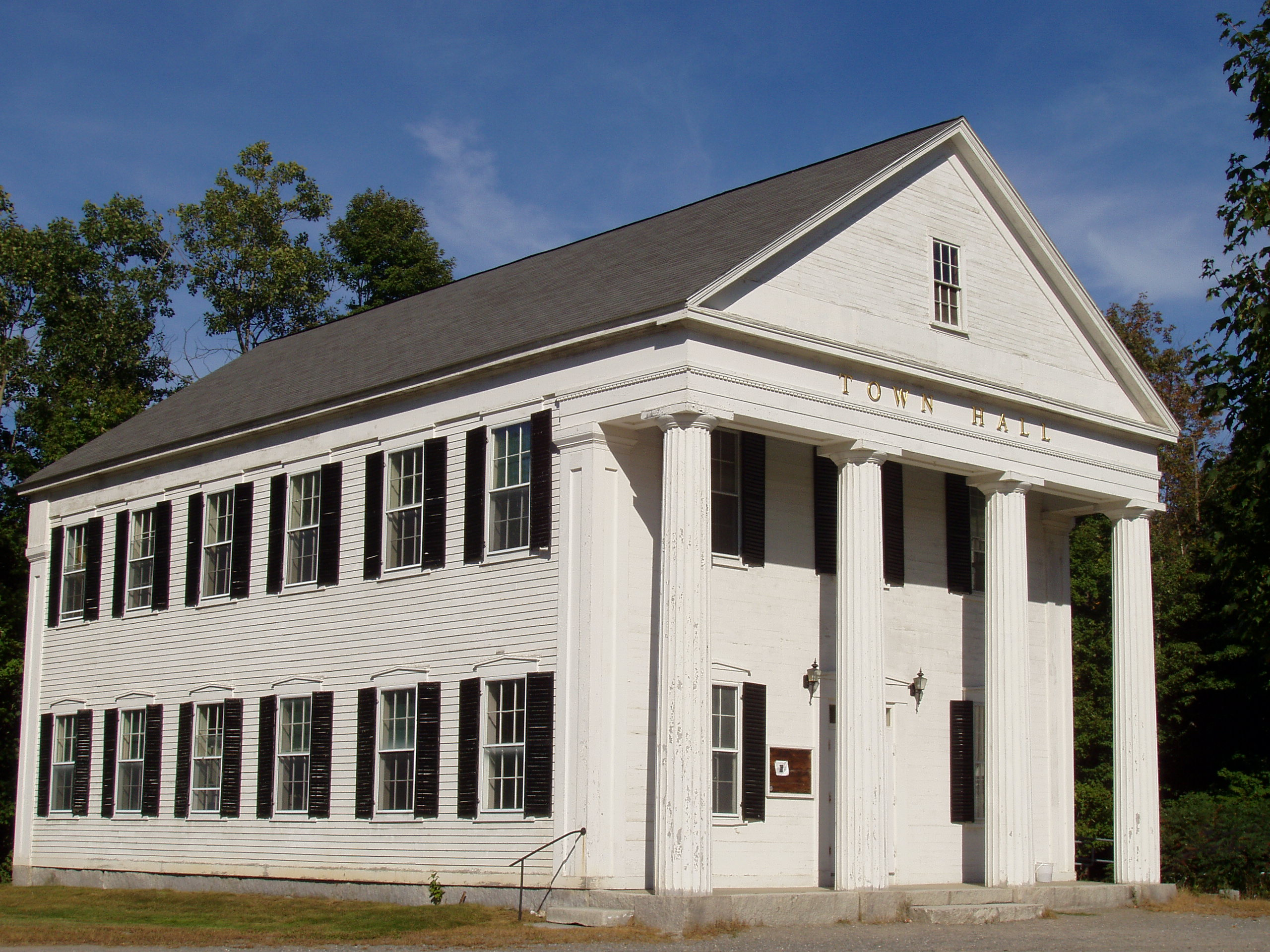 Town Hall - Shirley Center, Massachusetts. Photograph taken by me, October 2005.